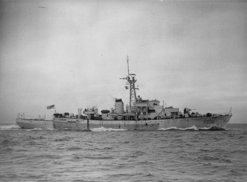 Photograph of British Castle class corvette HMS Denbigh Castle (K696).